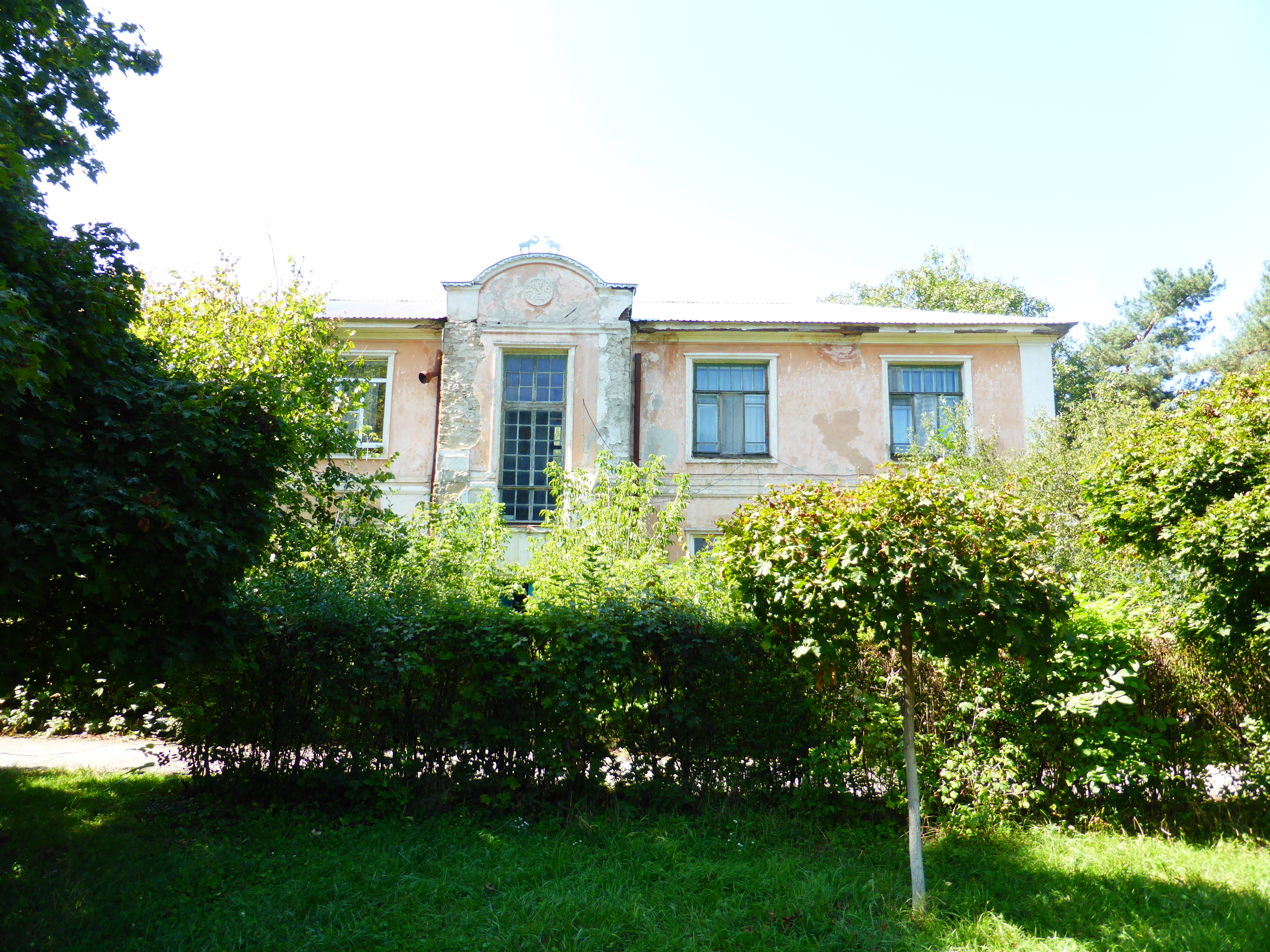 The house where he lived the commander of the guerrilla group "For the Motherland" Isakov